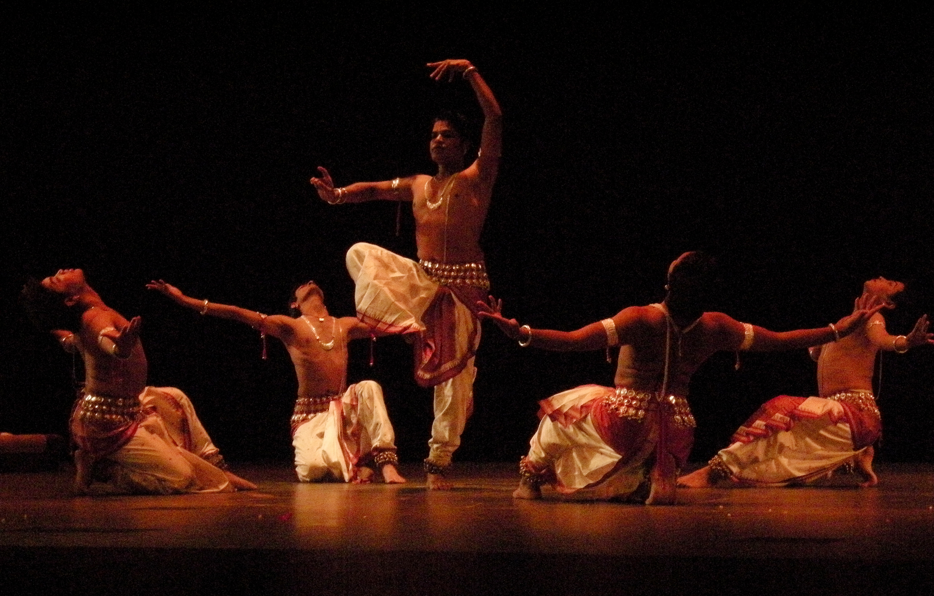 Performance by Odissi dance troupe Rudrakshya (with live musical accompaniment) at Interlake High School, Bellevue, Washington; performance in the Ragamala series (Greater Seattle). Information about the individual performers can be found on the Ragamala site.